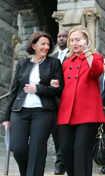 President of Kosovo Jahjaga and Secretary Clinton Other information Office of the President of Kosovo, 2011